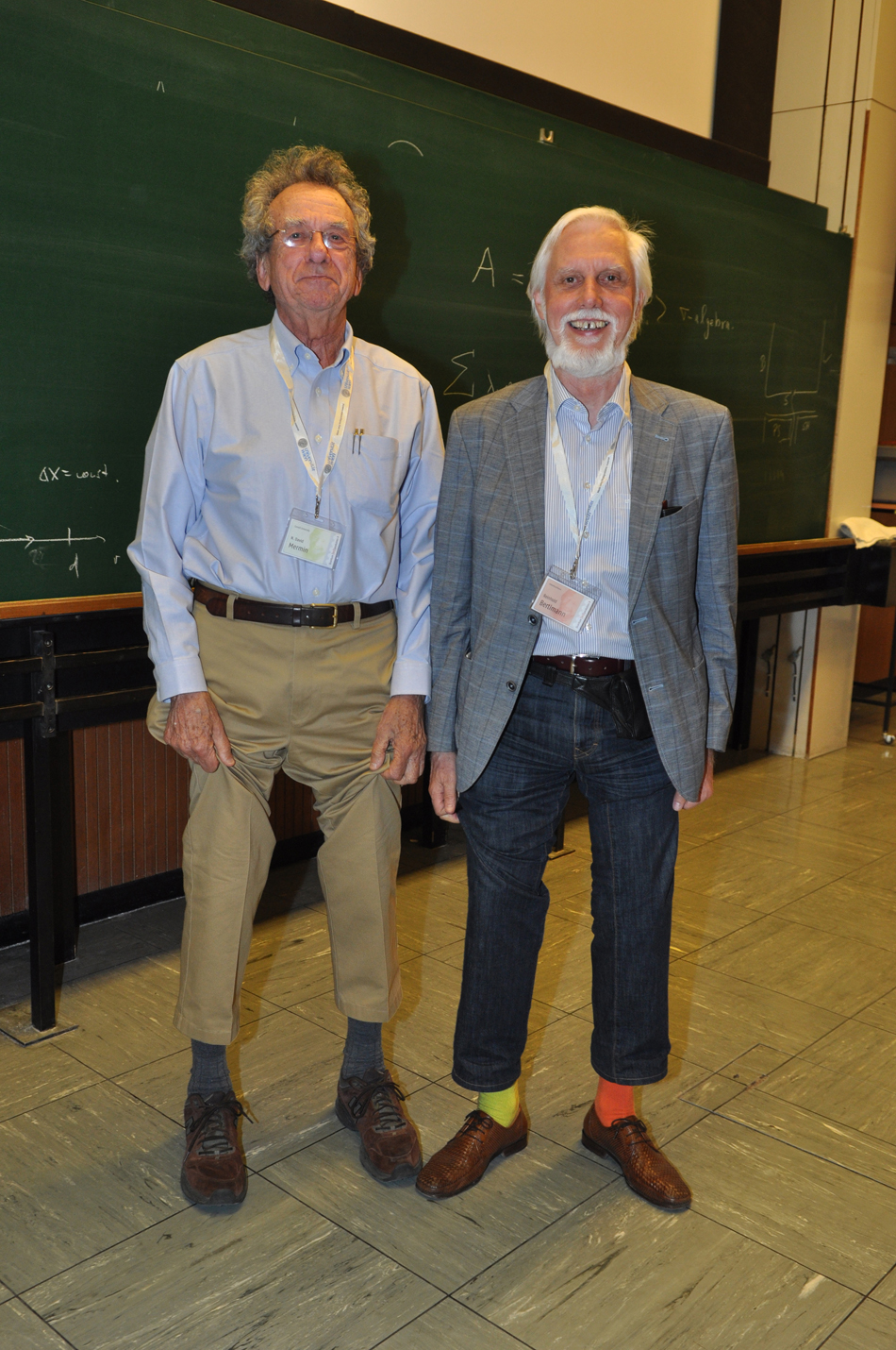 David Mermin and Reinhold Bertlmann showing their socks at the conference Quantum [Un]Speakables II, Vienna 2014